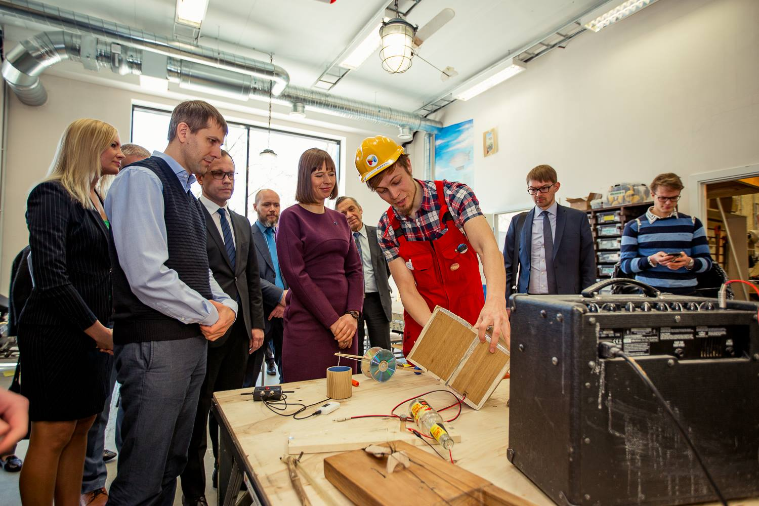 President Makerlabis